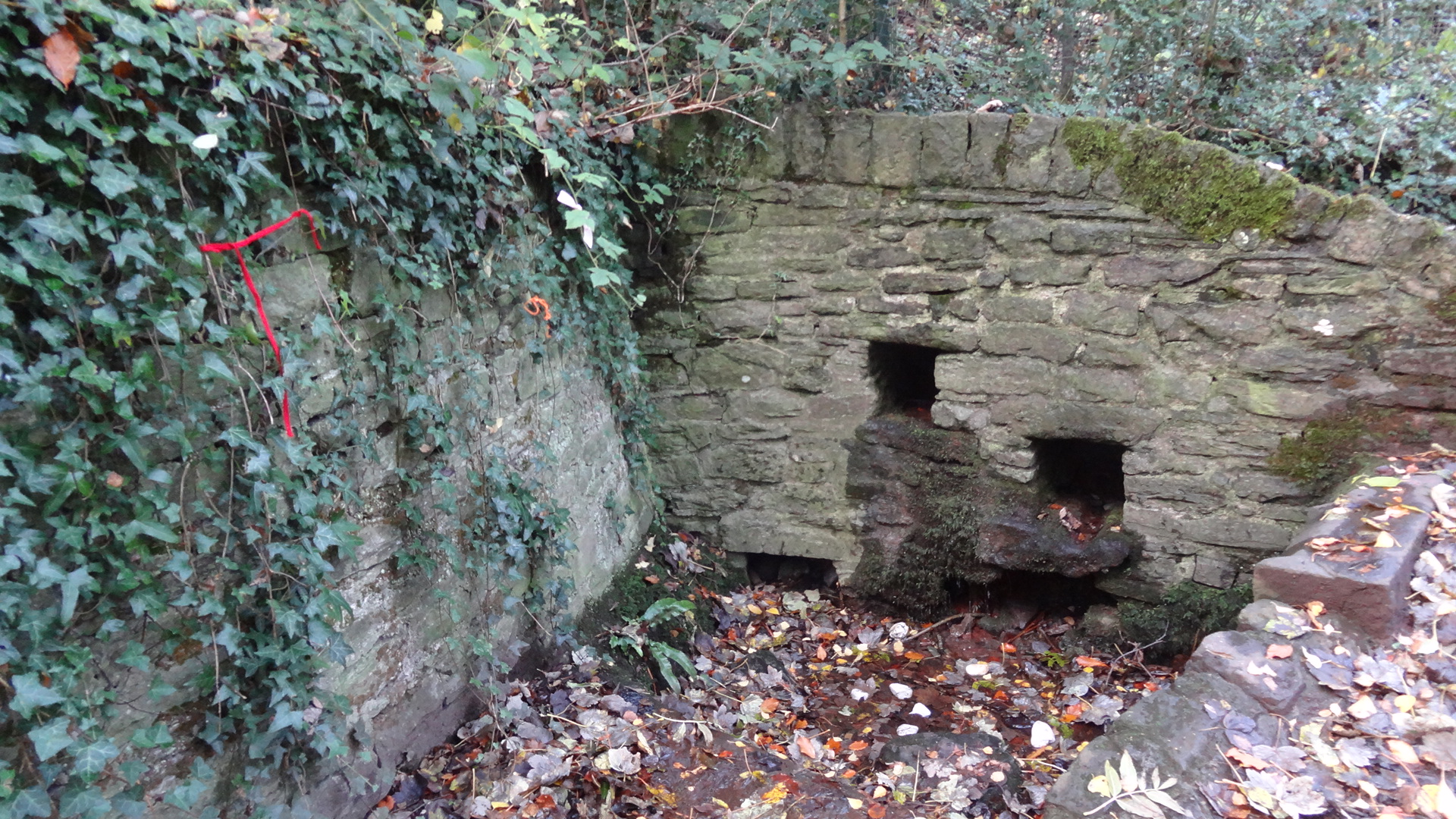 Priory well, Brecon, Wales